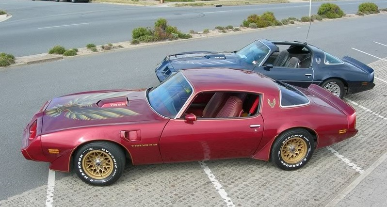 1979 Pontiac Firebird Trans AM, in T-Top and Hard Top variations.